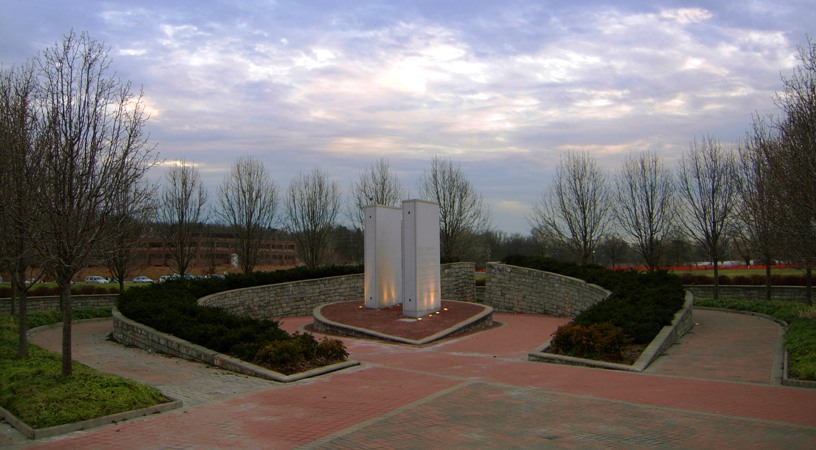 Image taken by Andy M. Wang December 2006. Image reduced in size. Multi license with GFDL and Creative Commons.